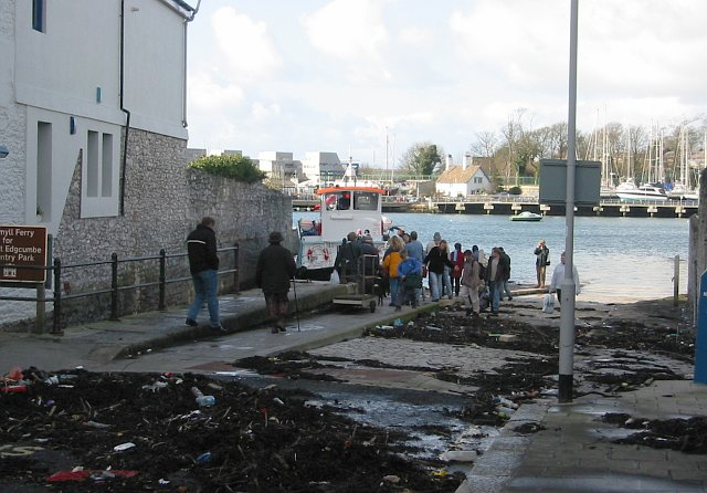 The Cremyll Ferry at Admiral's Hard. A popular foot passenger ferry across the mouth of the River Tamar. On the other side is Cremyll and The Mount Edgcumbe Country Park. The Ferry looks like the Northern Belle which has been ferrying people across the Tamar since it was built in 1926.